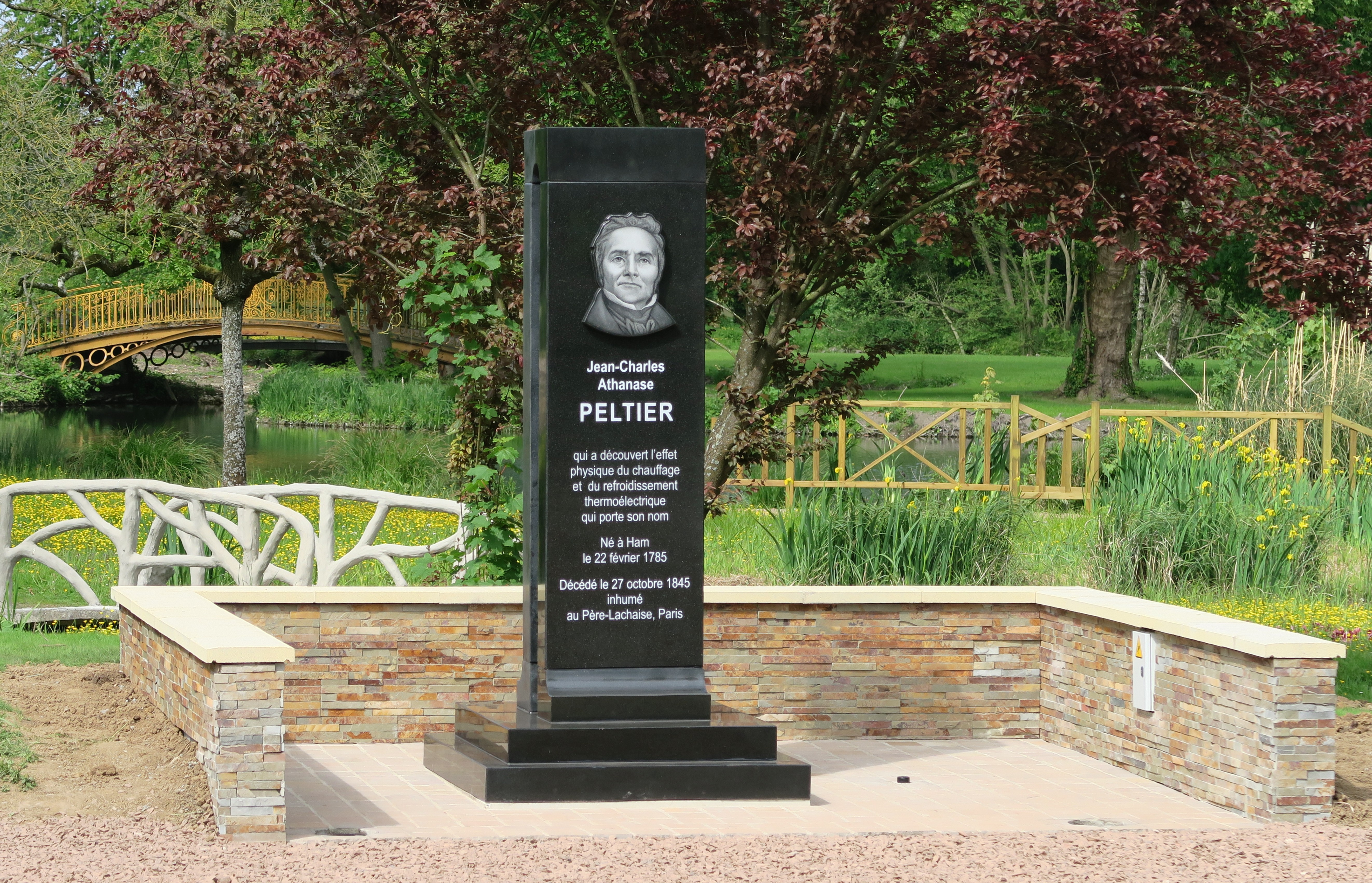 Peltier Monument at Ham / FRANCE